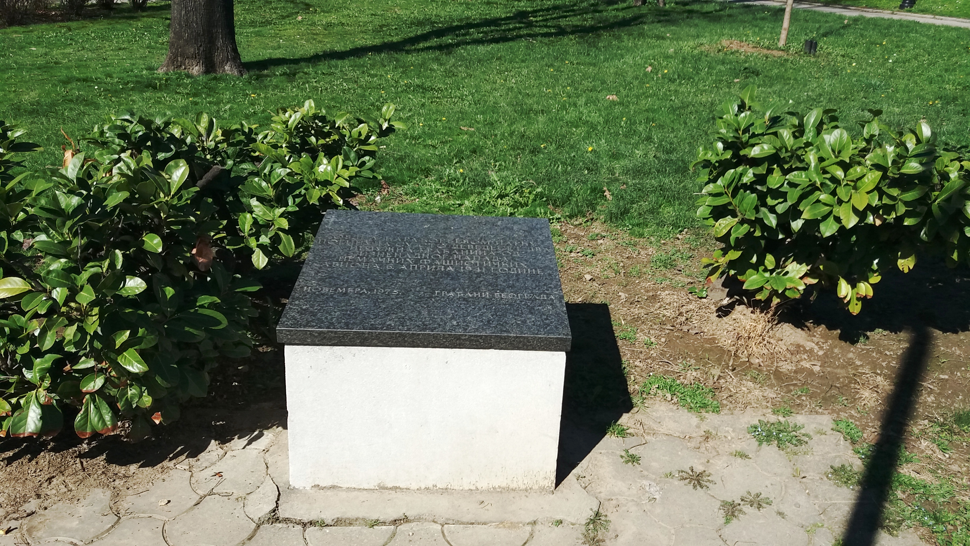 Commemoration of the 192 killed Belgrade inhabitants, Park of Karadjordje, Vracar Municipality